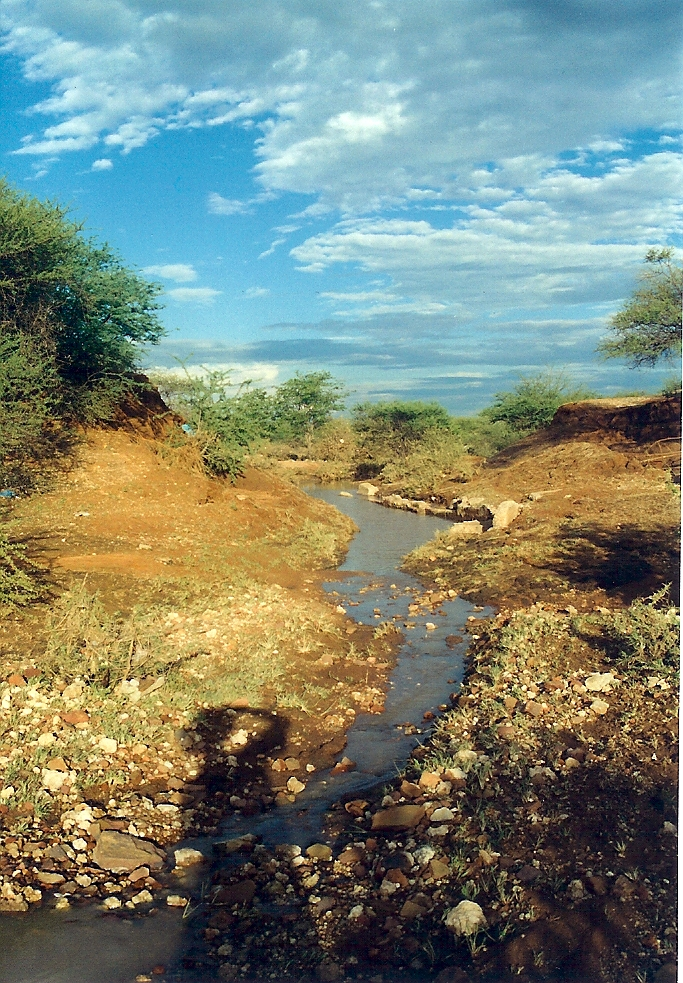 The Lotsane River, a seasonal tributary of the Limpopo, by the village of Palapye, Botswana. This picture of the riverbed was taken less than 24 hours after the floods shown in Image:Palapye flood 1.jpg. Taken rainy season 1994/5.